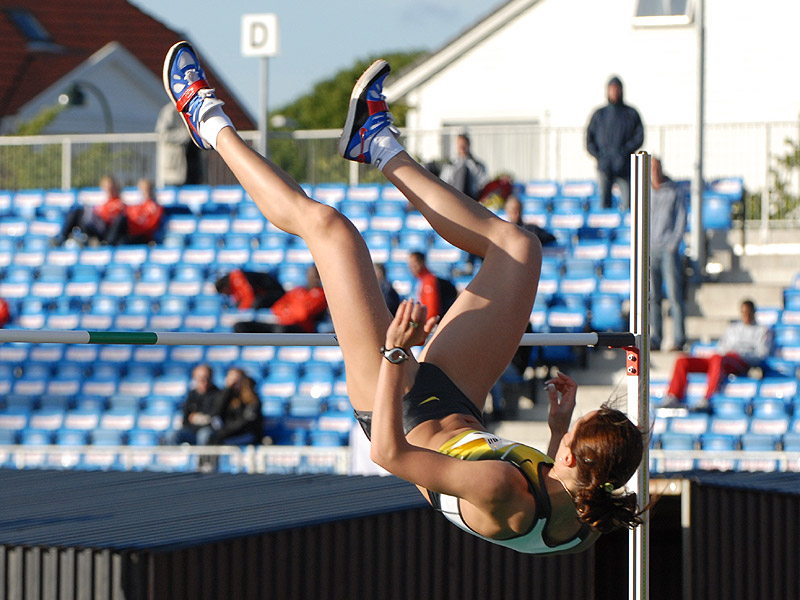 Yelena Slesarenko at Stavanger Games 2007.